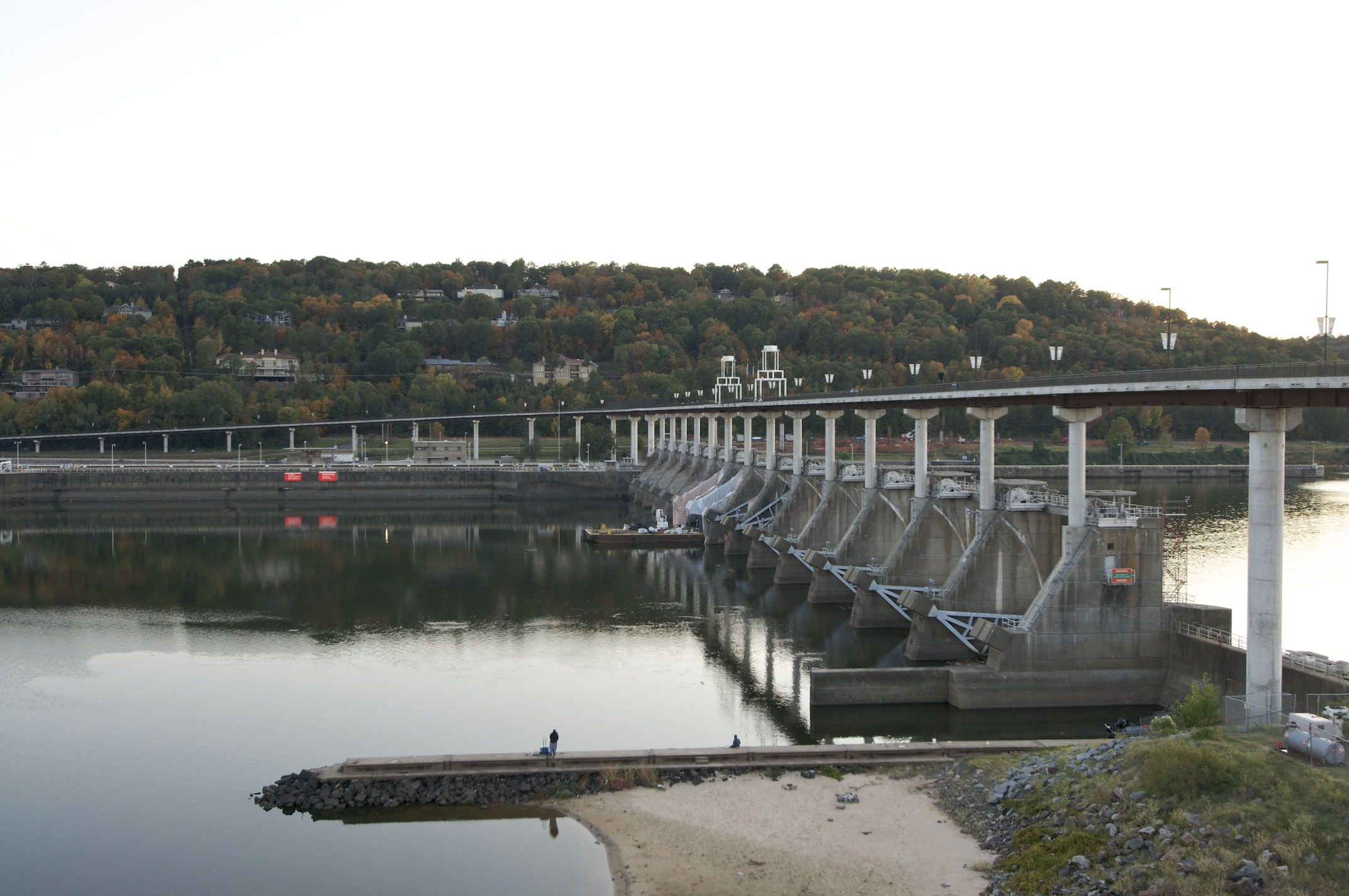 Total length: 4226 feet / 1288 meters Built on top of the Murray Lock and Dam, part of the McClellan-Kerr Arkansas River Navigation System The longest dedicated pedestrian/bicycle bridge in the USA that has never been used for automobile traffic As seen from the North Little Rock side, Pulaski County, Arkansas